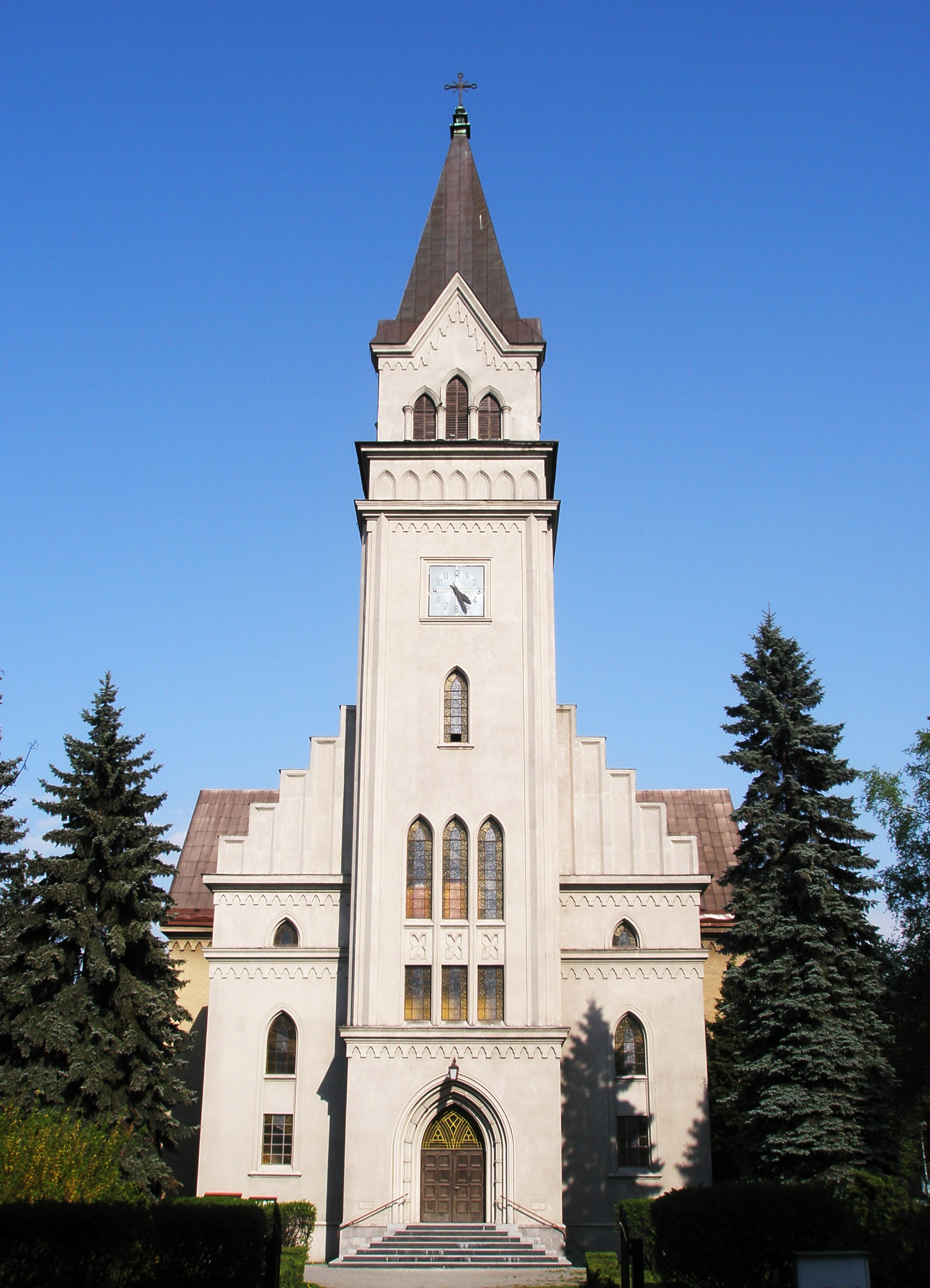 Lutheran "Na Nivách" Church in Český Těšín, Karviná District, Czech Republic